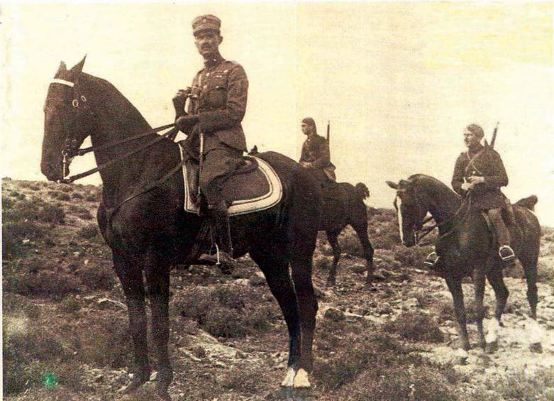 Greek colonel Nikolaos Plastiras, Asia Minor, circa 1922Türkçe: Yunan albay Nikolaos Plastiras, Anadolu, takriben 1922